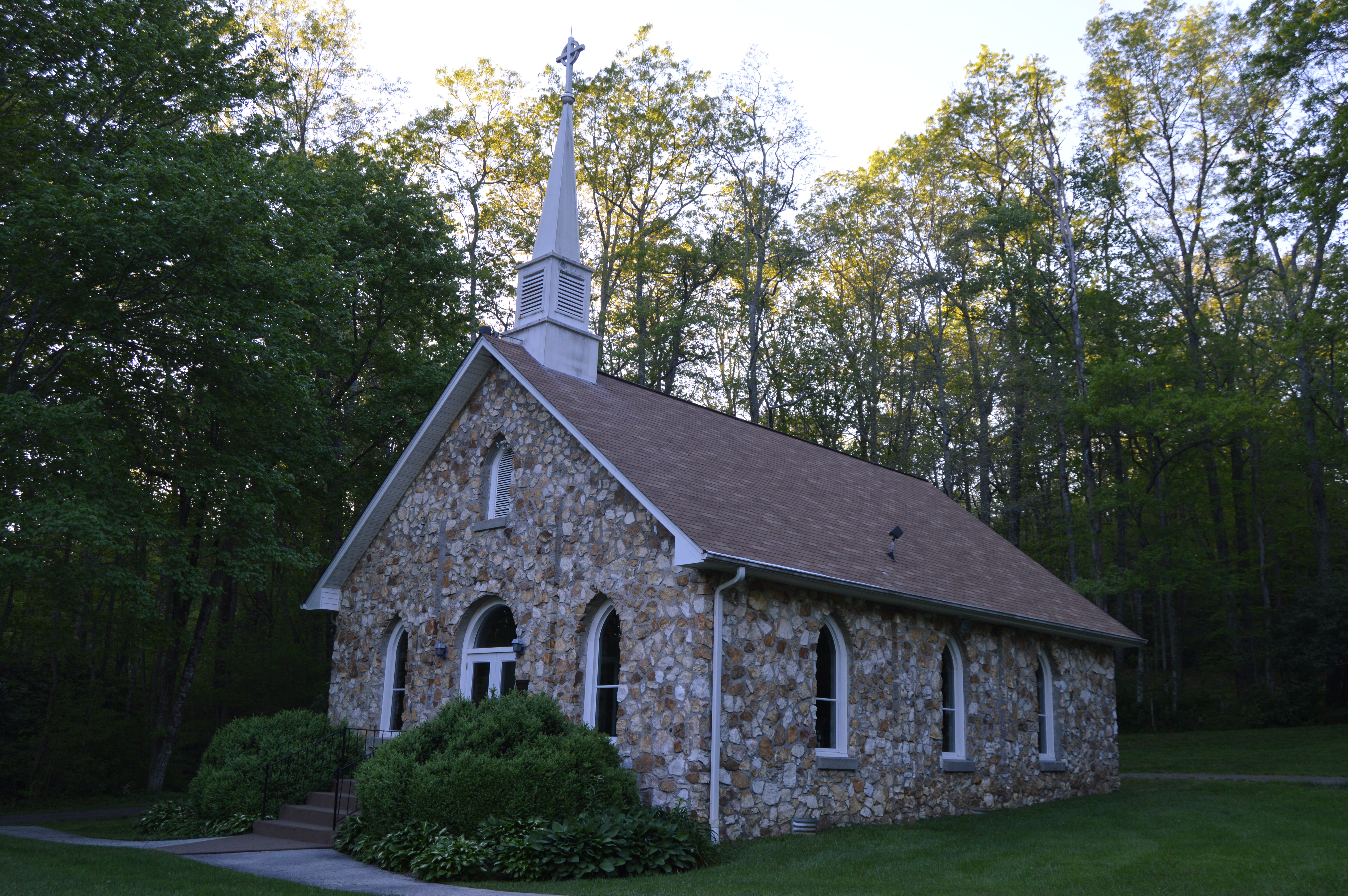 Front and eastern side of Mayberry Presbyterian Church, located along the Blue Ridge Parkway southwest of Meadows of Dan in Patrick County, Virginia, United States. Built in 1925, it is listed on the National Register of Historic Places.